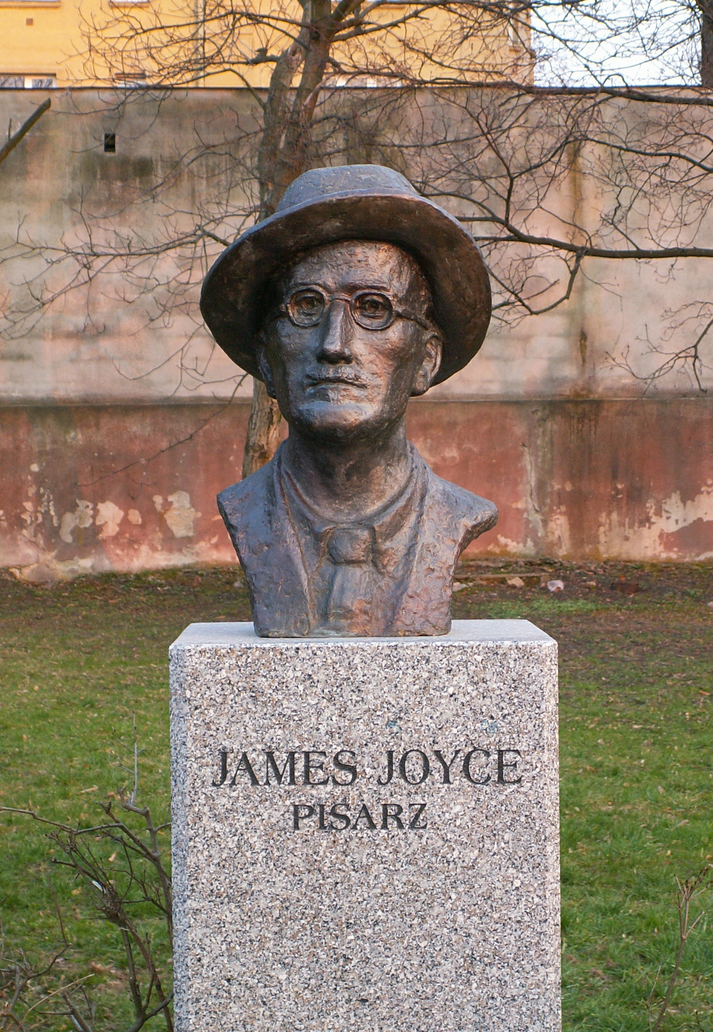 Bust of James Joyce in Celebrity Alley in Kielce (Poland)